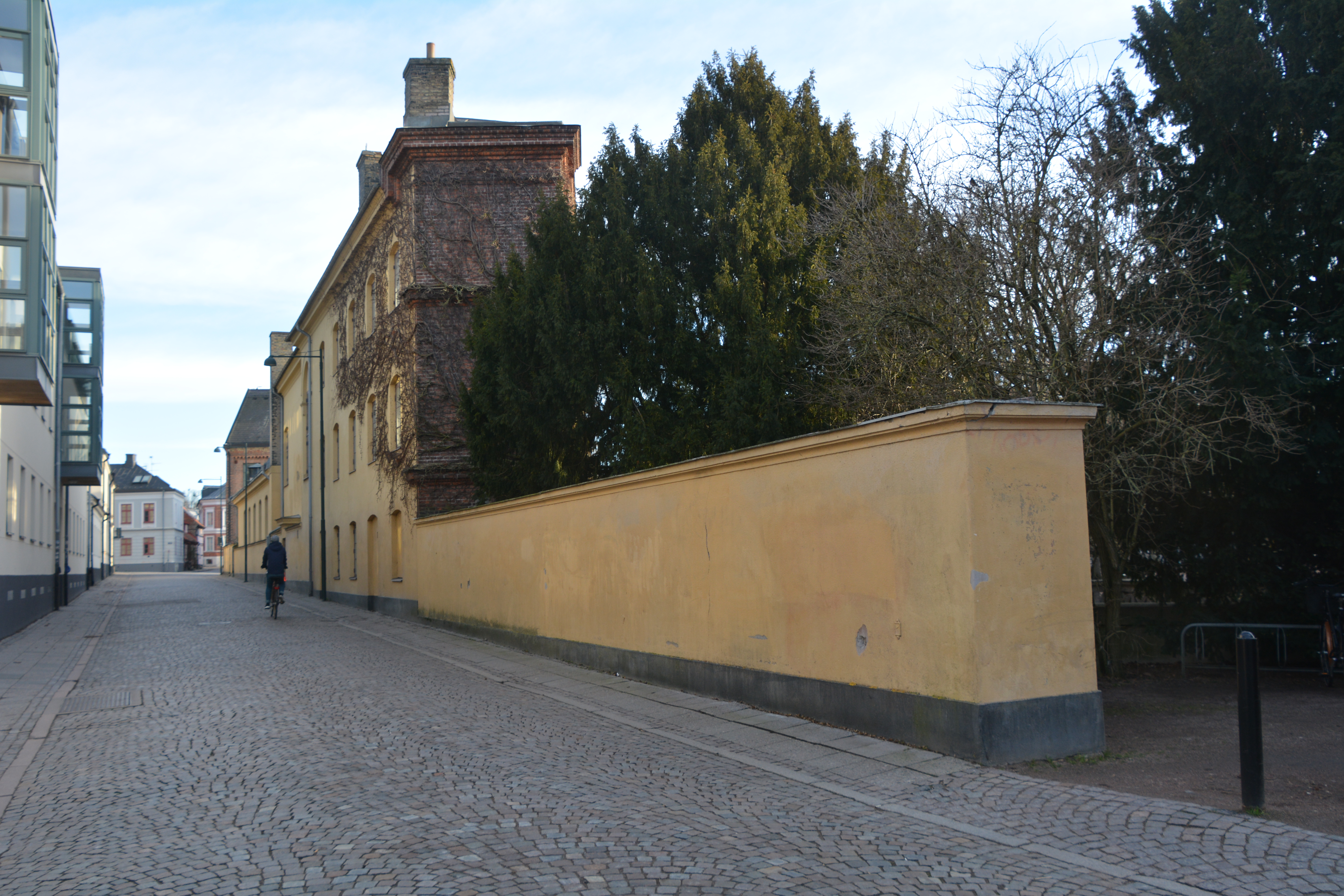 Paradisgatan in Lund, with the remaining part of the earlier wall around Lundagård to the right